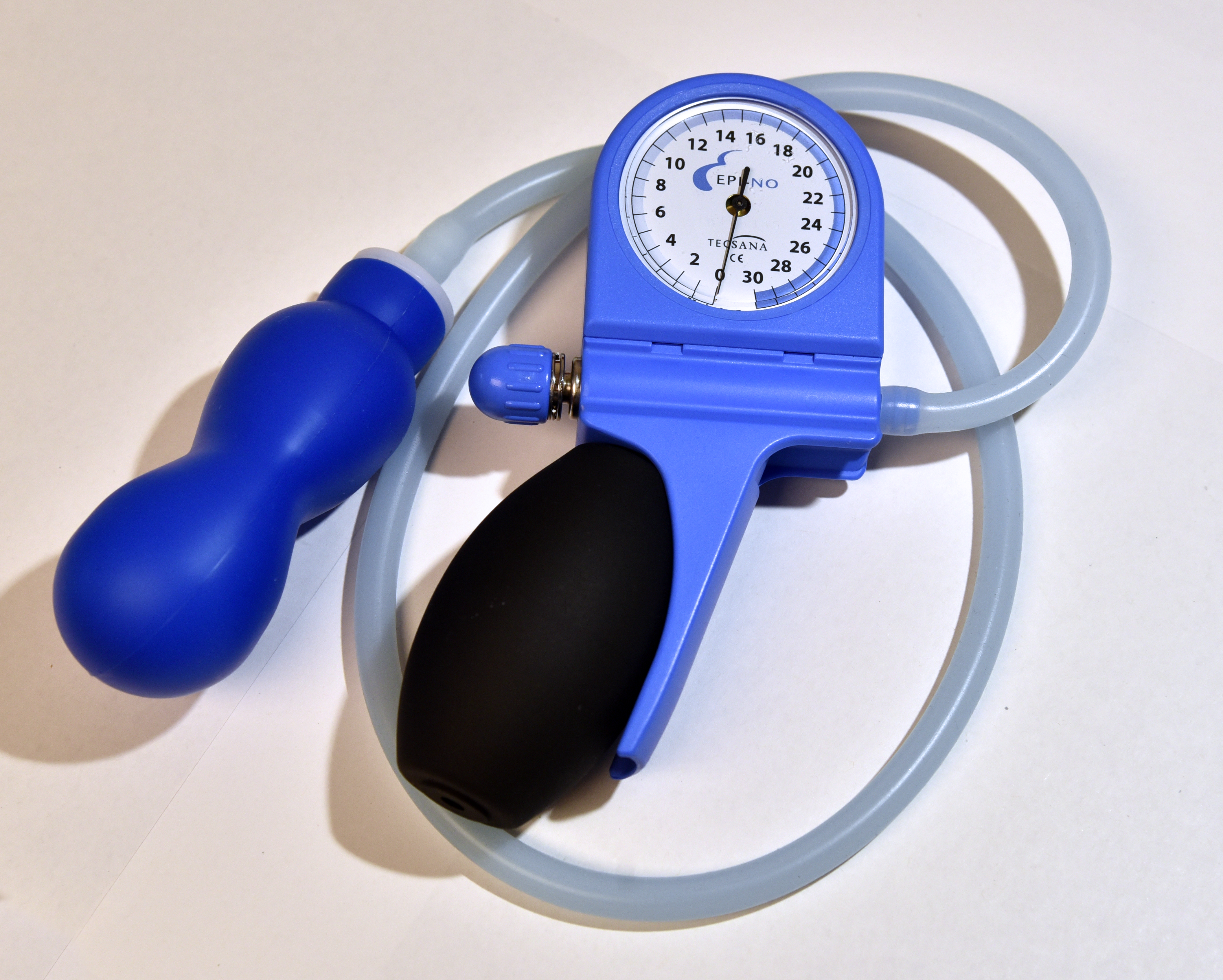 EPI-NO EPI-No Delphine Plus- birth canal widening device